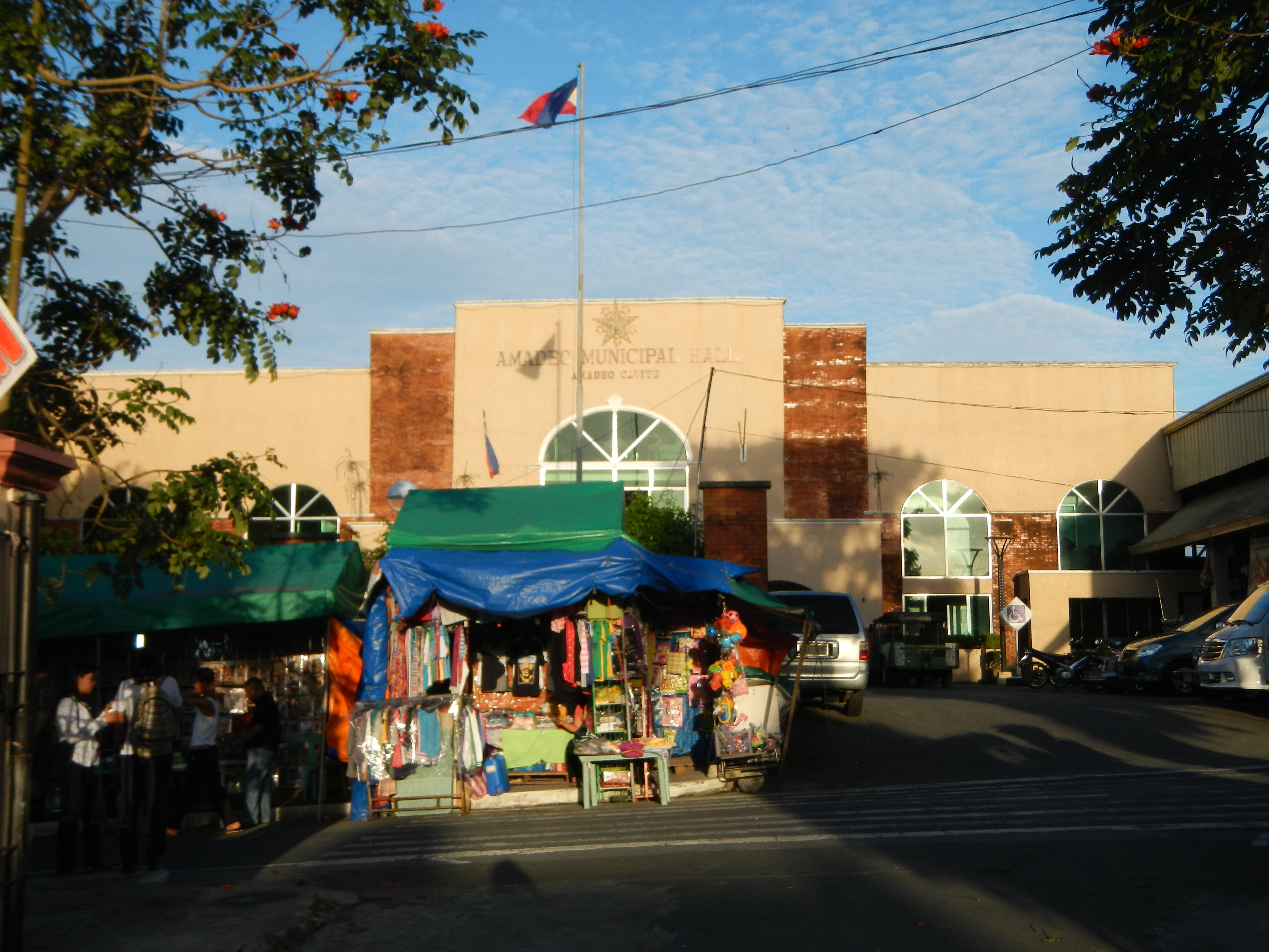 Upload Wizard photos of the a) Amadeo Municipal Hall Complex (including the Flag pole, beside the Covered Court and in the middle of the Town plaza, the 1st and 2nd floor of the Town hall of), - Amadeo, Cavite [1] at Poblacion, downtown, Town Proper, Centro, and in front of the Heritage church - b) May 1, 1884 founded, Saint Mary Magdalene Parish Church of Amadeo, (Town Proper, its very beautiful Patio and surroundings in Poblacion, Amadeo, Cavite [2] - which belongs to the Roman Catholic Diocese of Imus[3] [4] [5] formerly District 5, Vicariate of Our Lady of Candelaria - now Vicariate of The Seven Archangels - Tagaytay City, Mendez, Indang, Amadeo, Alfonso, and General Aguinaldo Vicar Forane: Rev Fr. Luisito C. Gatdula Vicarial Representative: Rev. Fr. Hermenegildo M. Asilo), and the c) A. Soriano or Amadeo National Road and Highway with its Coffee statue Welcome gateway to Amadeo Town Proper, and facing its neighbor, Tagaytay City, Cavite, and the d) Governor Samonte Park with its baywalk and 13 Martyrs Monument in front of the blue sky, the deep blue to black sea and deepest Cavite Ocean, in Cavite City, Province of Batangas, this is a Heritage and Cultural treasure of Cavite recognized by the NCCA and NHI.